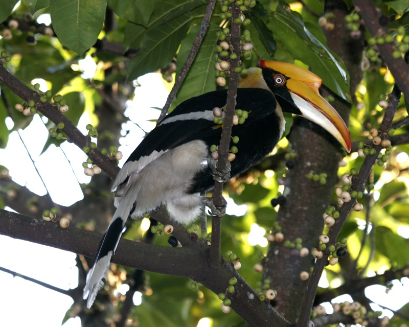 Great Hornbill (Buceros bicornis) also known as Greater Indian Hornbill or Two-horned Calao in the Botanic Garden, Singapore. Photo 7 November 2005. Seen contemplating fruits in a Sea Fig tree Ficus superba. This is a much photographed escapee from the Jurong Bird Park. The tag on her right foot is the tell tale sign. Her large size indicates that she may have originally come from India as the Malaysian and Thai birds are generally smaller.